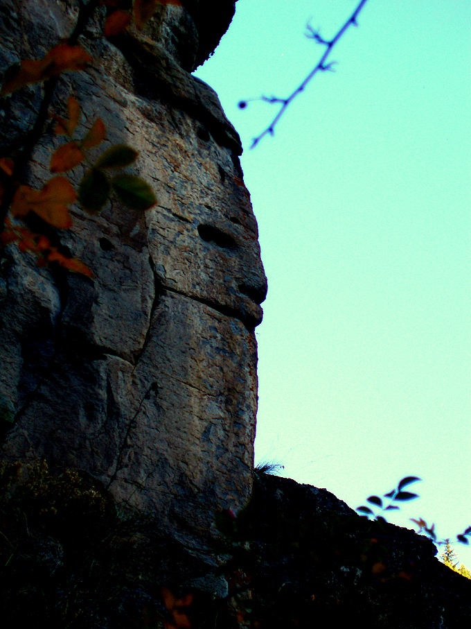 Studagrada_Rhodopes_Bg_Ancient_Tracian_Sanctuary_9